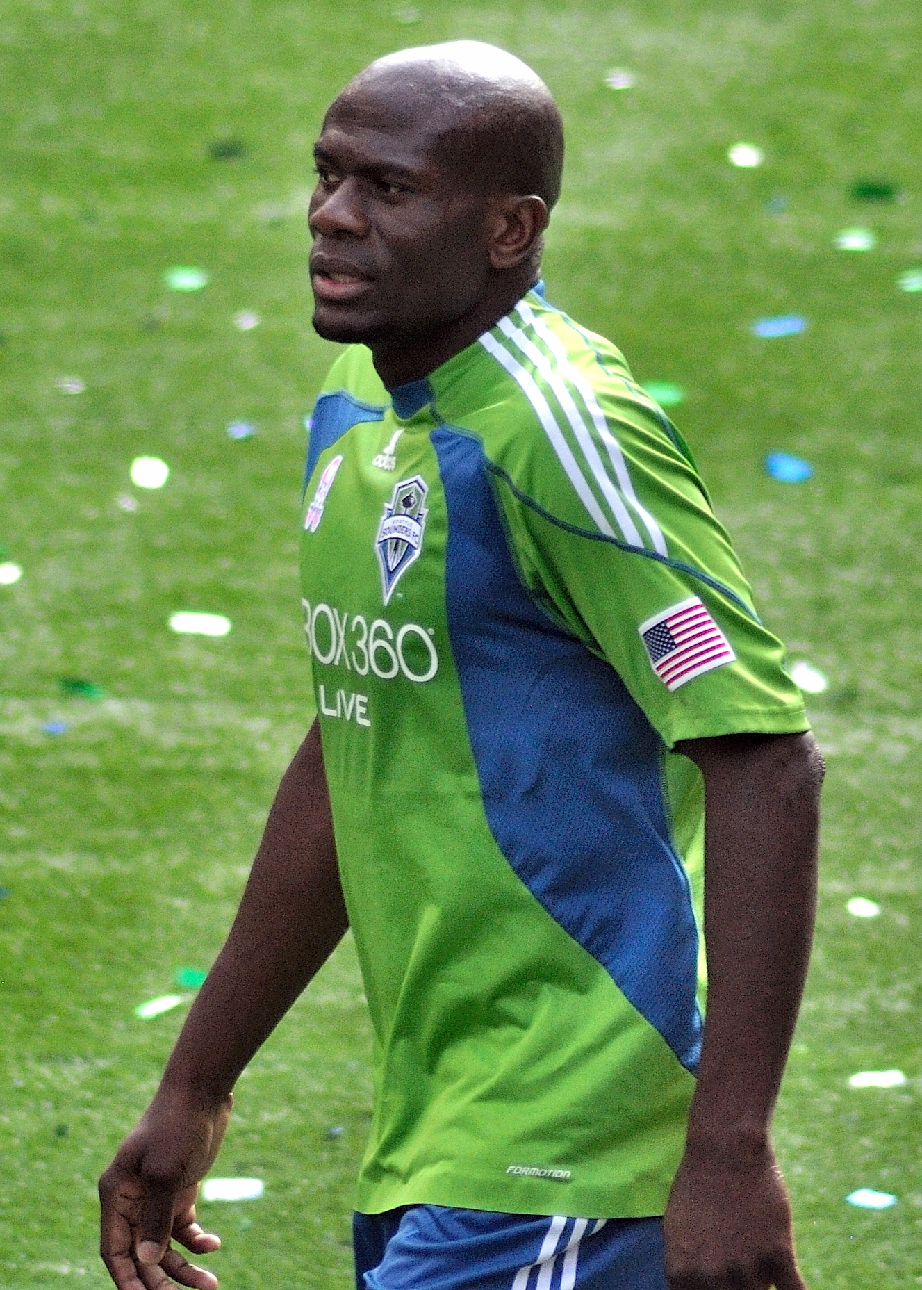 Blaise Nkufo on October 2, 2010 against Toronto FC